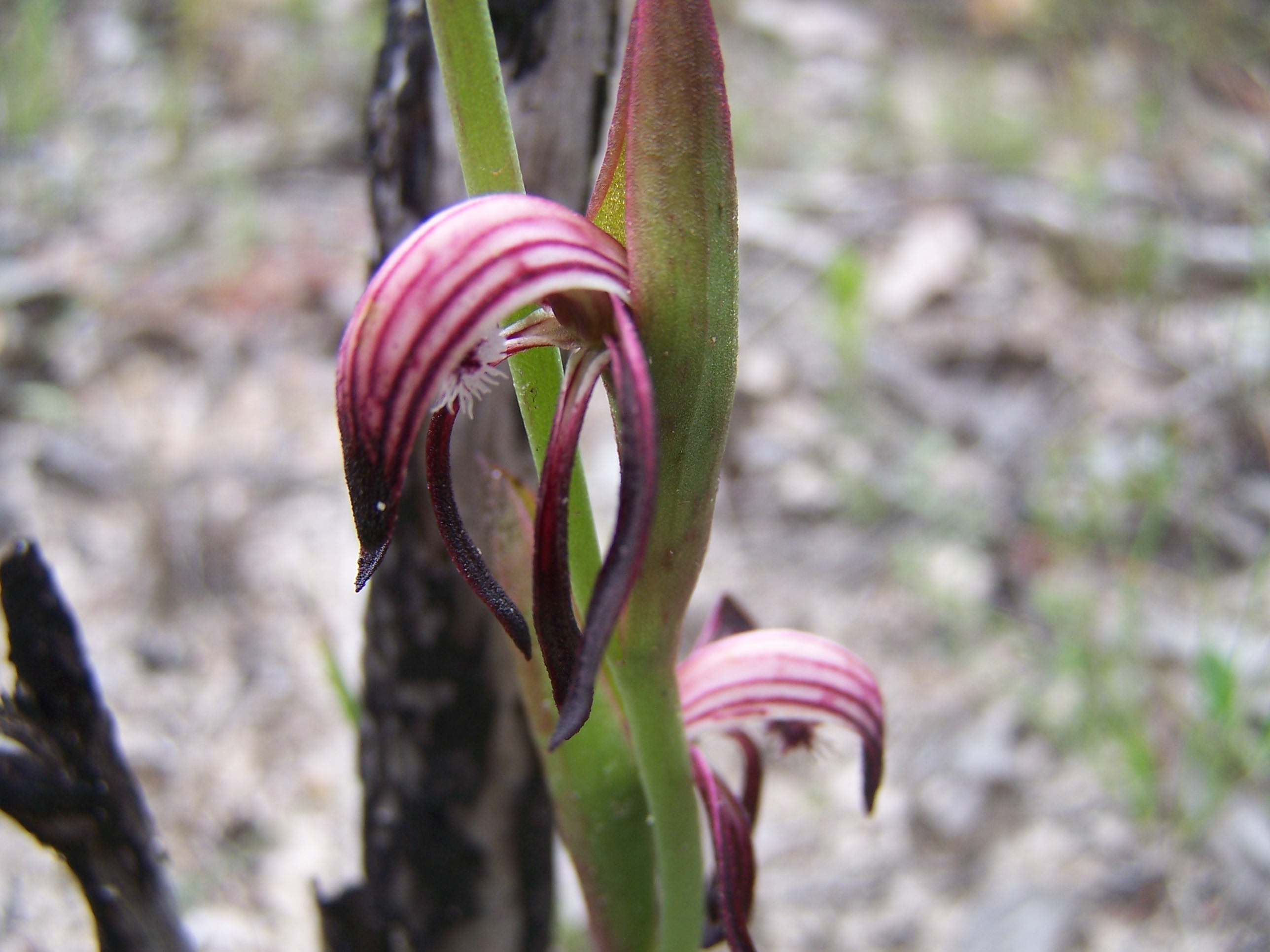 Australian orchid, the Undertaker Orchid, or Redbeaks (Pyrorchis nigricans)